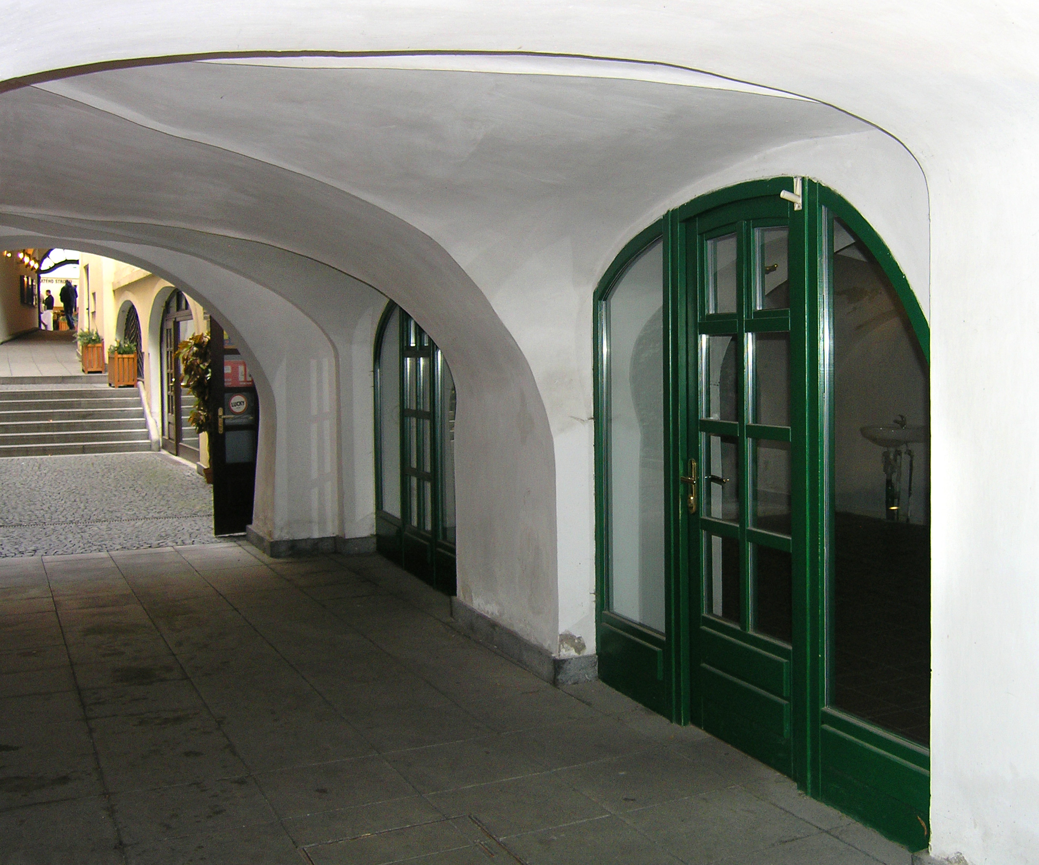 Inner part of a house at Karlova street in Old Town, Prague